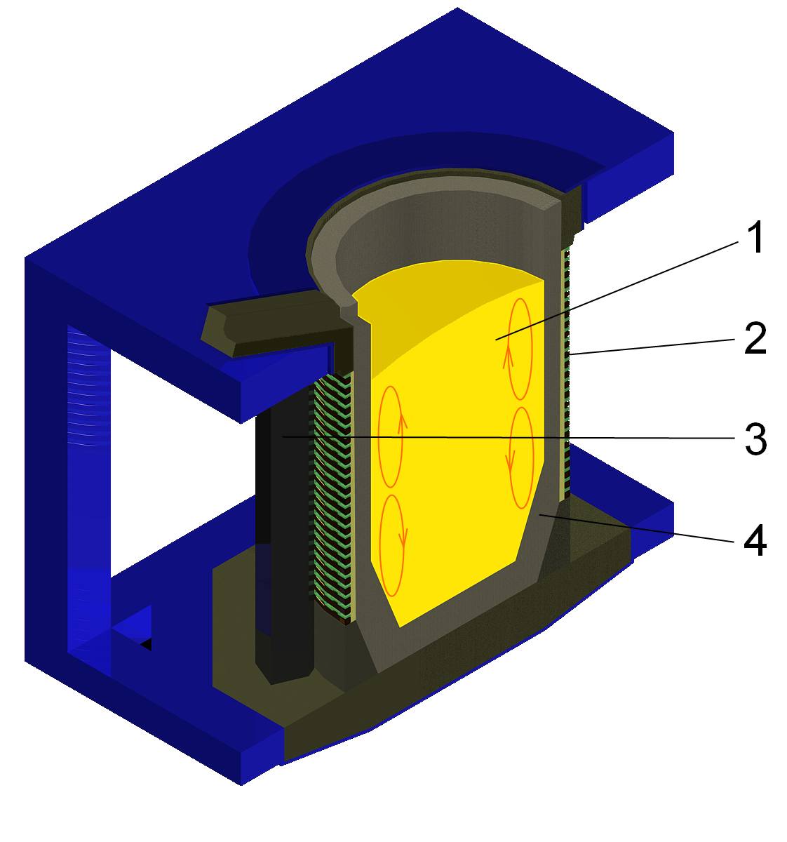 section view of a coreless induction furnace 1 - melt 2 - water cooled coil 3 - laminated yokes 4 - crucible